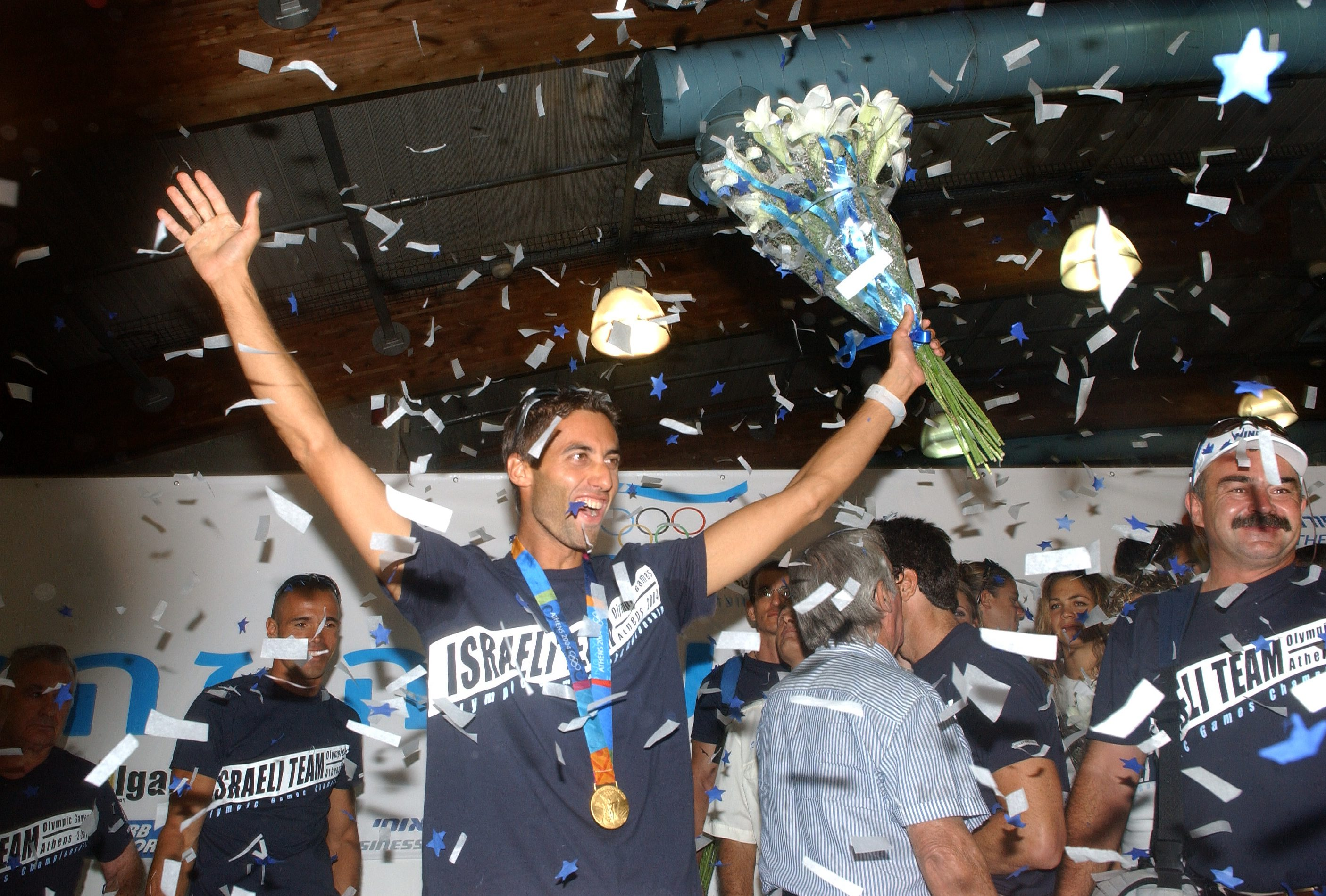 Gold Medalist Windsurfer Gal Fridman at the official reception at Ben-Gurion Airport for Israel’s Olympic athletes’ return from the Athens 2004 Olympic Games. זוכה מדליית הזהב בגלישת רוח, גל פרידמן, בקבלת הפנים הרשמית בנמל התעופה בן גוריון בקבלת הפנים הרשמית שנערכה עבור הספורטאים האולימפיים של ישראל שחזרו מאולימפיידת אתונה 2004. Photo: Moshe Milner (1946–) Alternative names Miylner, Moše; Milner, Mosheh; Moshé Milner; Milner, M.; Mîlner, Moše; Miylner, MošehDescriptionIsraeli photographerצלם ישראליDate of birth 1946 Location of birth Germany Authority control : Q28750411 VIAF: 100999744 ISNI: 0000 0001 0804 0507 LCCN: n82072104 GND: 115699732 BNF: 15548788n WorldCat creator QS:P170,Q28750411 , 30/08/2004.